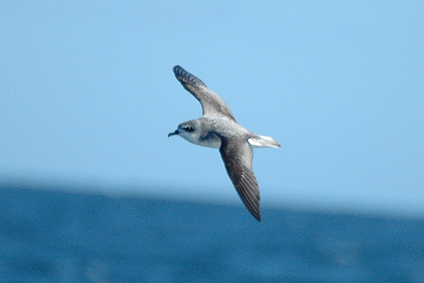 Cook's Petrel (Pterodroma cookii)